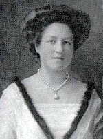 Archduchess Isabella of Austria (1887-1973)